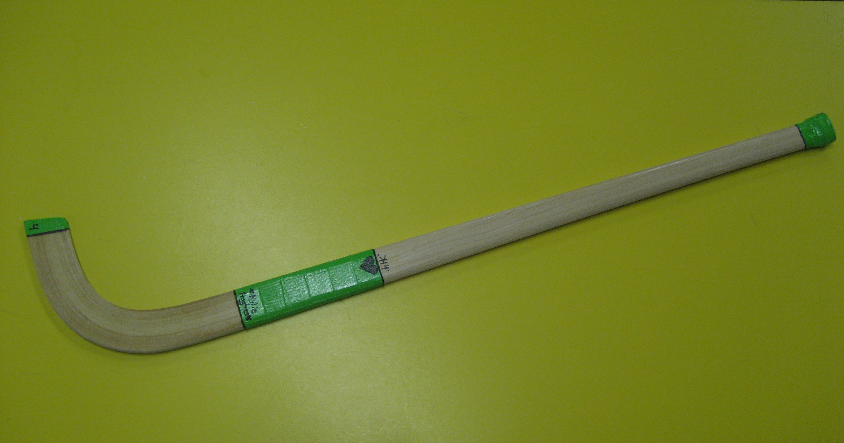 Sticks are different for skaters and goalkeepers. They can be of any material approved by the CIRH (although wooden sticks are still most often used), with a minimum length of 90 cm and maximum of 115 cm. They cannot be wider than 5 cm or weigh over 500 g.